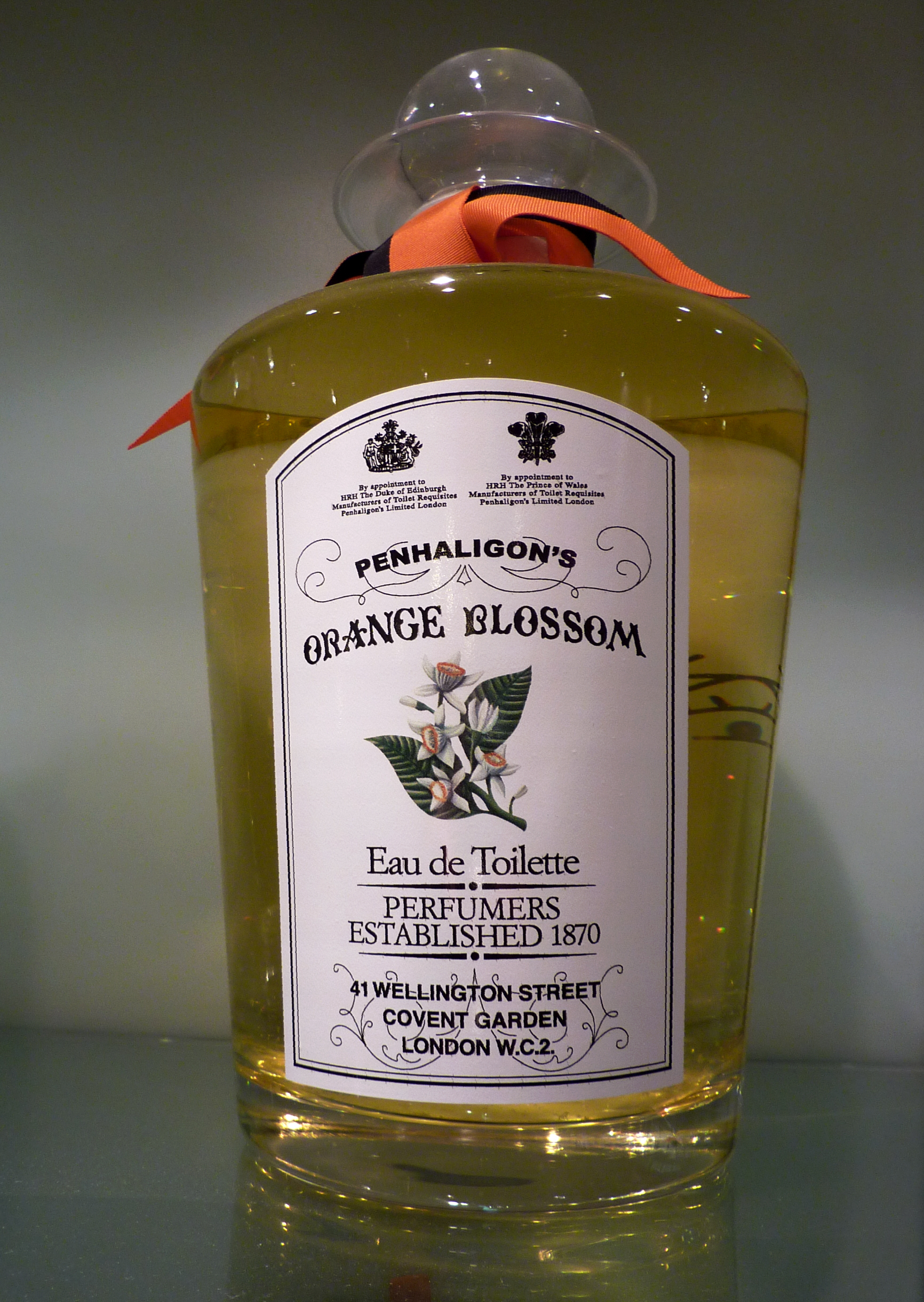 Display bottle by PENHALIGON'S, London, UK.